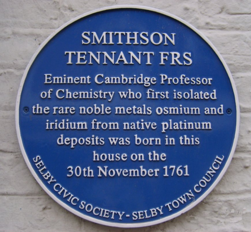 Elizabethan, Finkle Street. Plaque to Smithson Tennant F.R.S, born 1761. Put up by Selby Civic Society and Selby Town Council